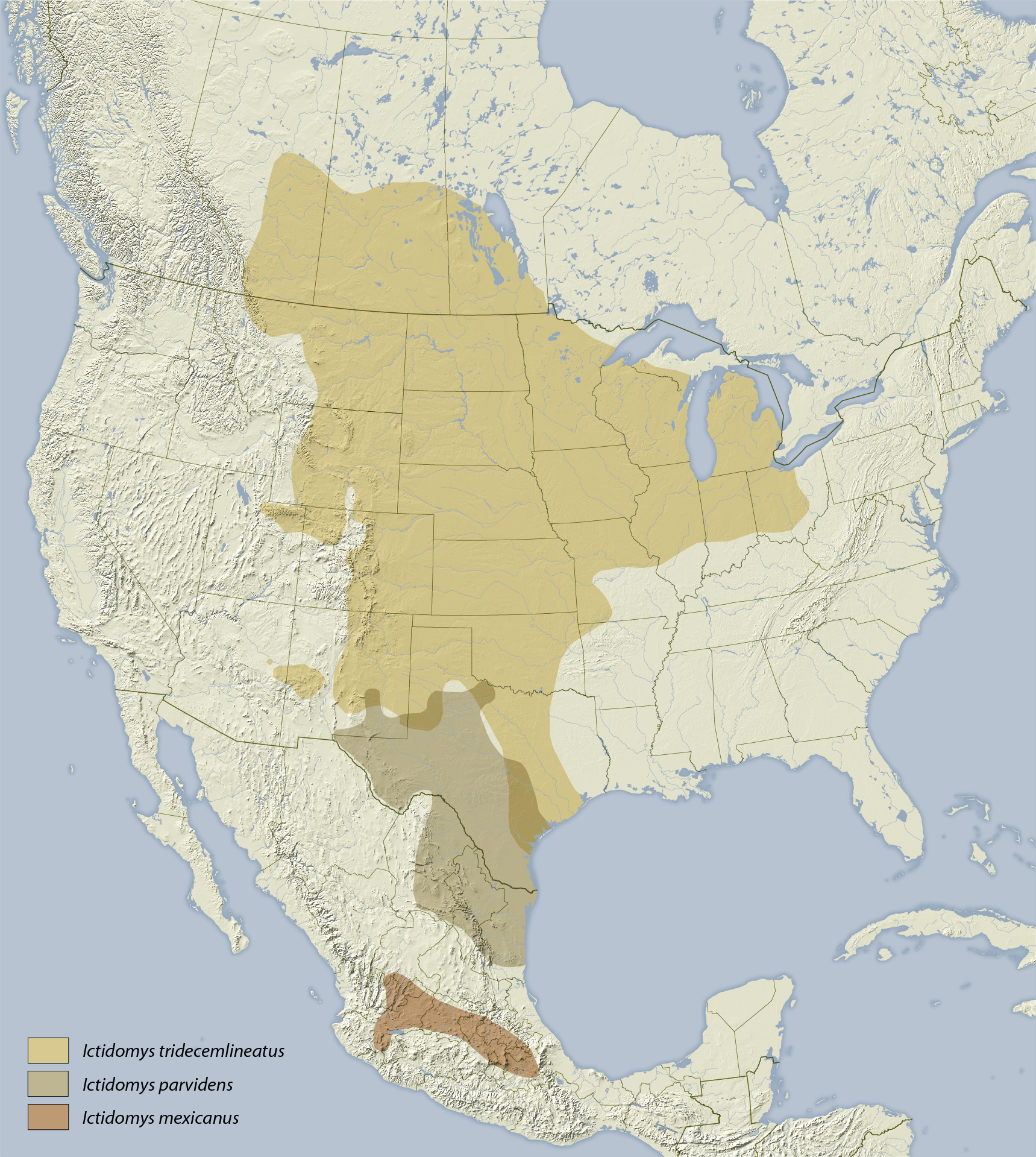 Distribution map of the genus Ictidomys